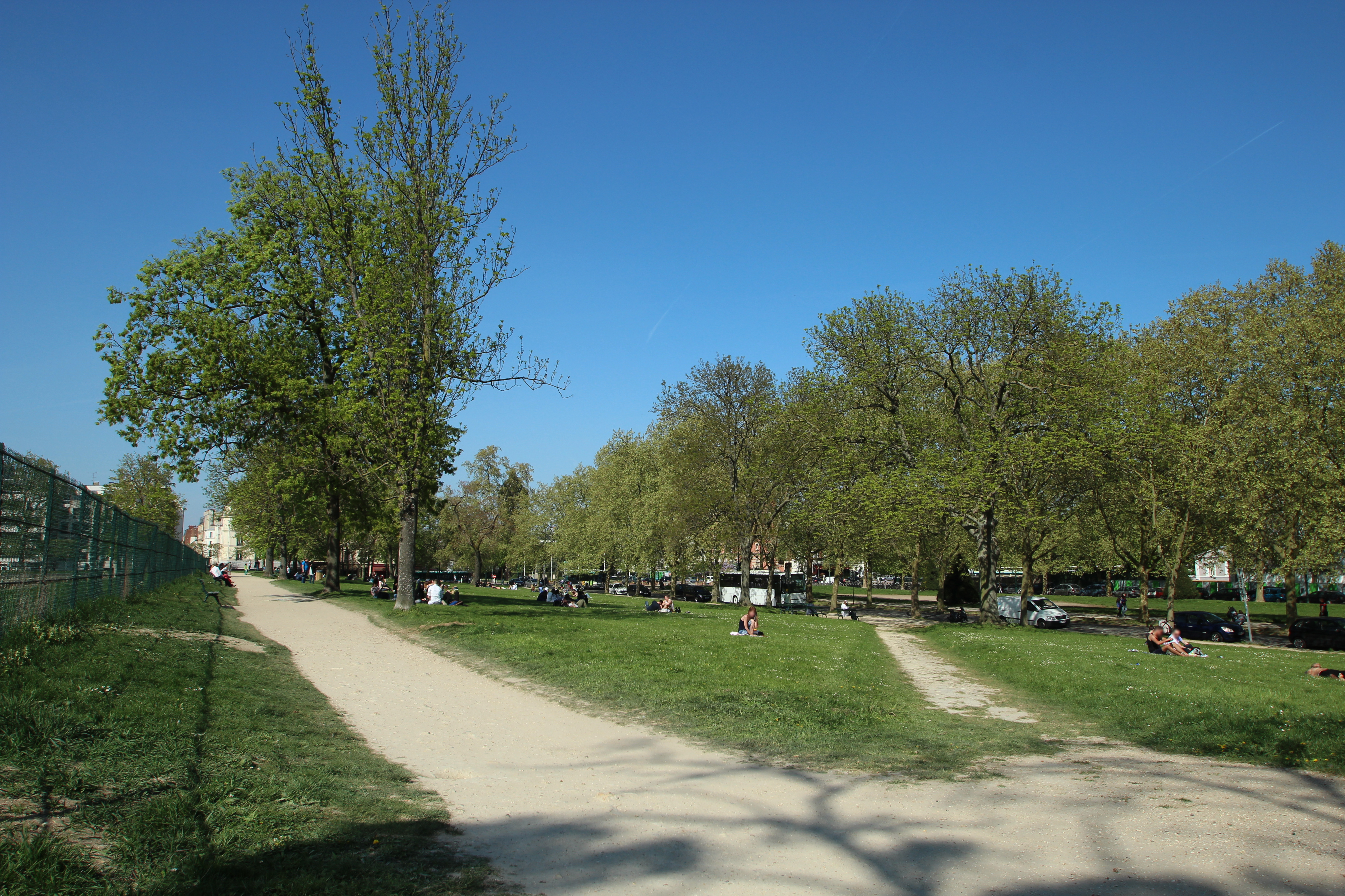 View of the castel of Vincennes, France. Object location48° 50′ 34.01″ N, 2° 26′ 08.99″ E It is indexed in the Base Mérimée, a database of architectural heritage maintained by the French Ministry of Culture, under the references PA00079920 and PA00086567 .